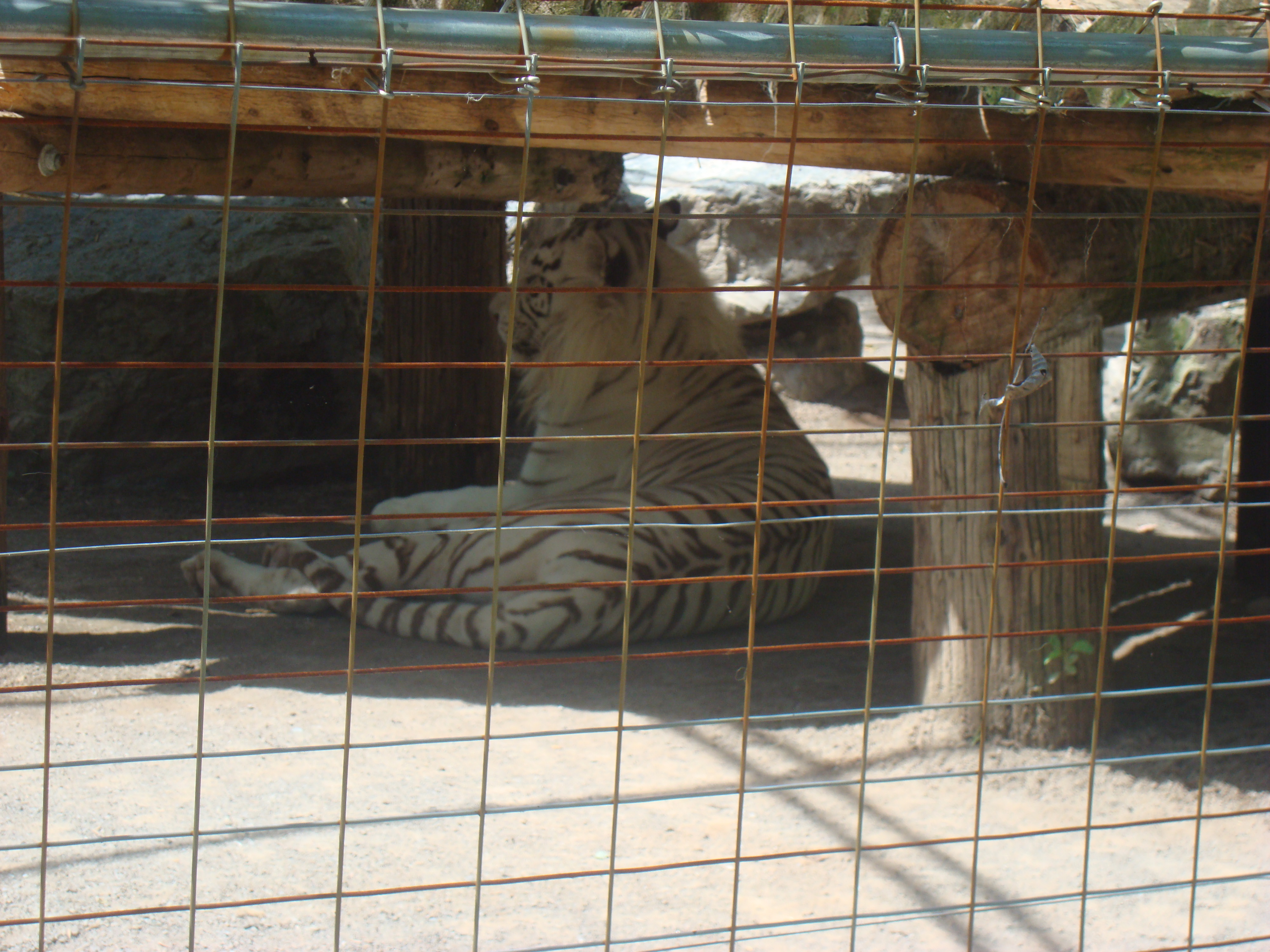 White Siberian Tiger at Safari Niagara, Stevensville, Fort Erie, Ontario, Canada. White tigers are caused by a recessive gene.